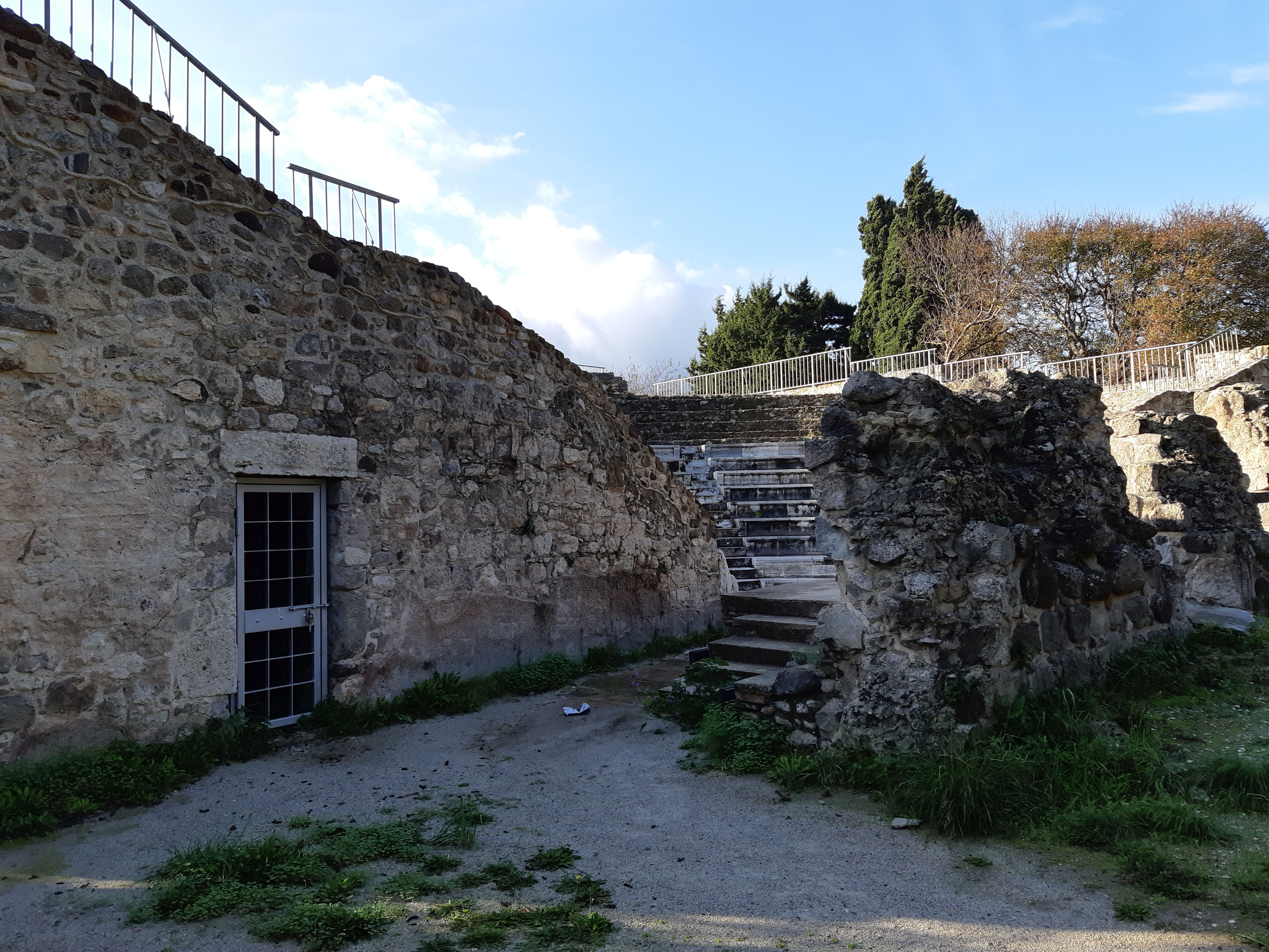 This Roman odeon (odeum, Greek: Ρωμαϊκό ωδείο) is located in the city of Kos (Κως) on the Greek island of Kos (Κω). The Odeon was discovered in 1929 by the Italian archaeologist Luciano Laurenzi during an excavation. The Odeon was built in the 2nd century after Cristus. The building was originally designed for a capacity of approx. 750 people.